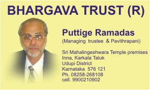 bharava trust